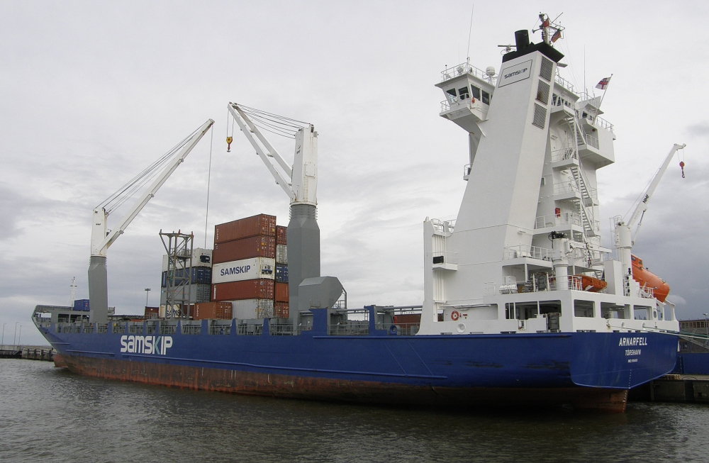 M/V Arnarfell Building no. 1172 Building Yard: J.J Sietas Schiffwerft GmbH u. Co. Neuenfelder Fahrdeich 88, 21129 Hamburg, Germany. Date of keel laiing: 17.12.2003 Date of building: 01.2005 Classification: Germanische Lloyd, +100A5, "Containership" "IW" "NAV-O", SOLOS 11-2, Reg. 19, +MC Aut. Germanische Lloyd no. 110980 Flag state: Faroe Island's International Register "FAS" Port of Register: Tórshavn Call sign: OZ 2048 IMO number: 9306005 MMSI no: 231355000 Main pariculars: GT/NT: 8830/3783 tons DWT: 11143 tons at 8,5 LOA/LBP: 137,53 / 127,20 meters Depth main deck: 8,50 m Cargo hold grain: 14888 cbm Breath moulded / Breath OA: 21,3 / 21,55 meters Speed: 18,2 kn Number of reefer plugs; 200 Tank capacity: Cbm. Heavy fuel: 843 Marine diesel oil: 170 Water ballast: 4235 Fresh water: 114 Cargo gear: 2 cargo cranes max SWL, 45 tons art 24,5 meters outreach. Main eng: MAN 7 L 48/60 B, 8400 KW Shaft generator: 2150 KVA Auxuliary engines: 2 Caterepillar engines each 1155 856 KW Bow thruster: 1 Brunwall 800 KW Ship's communication Inmarsat standard C no. 1: 423135510 Inmarsat standard C no. 2: 423135511 Inmarsat standard mini C no: 423135512